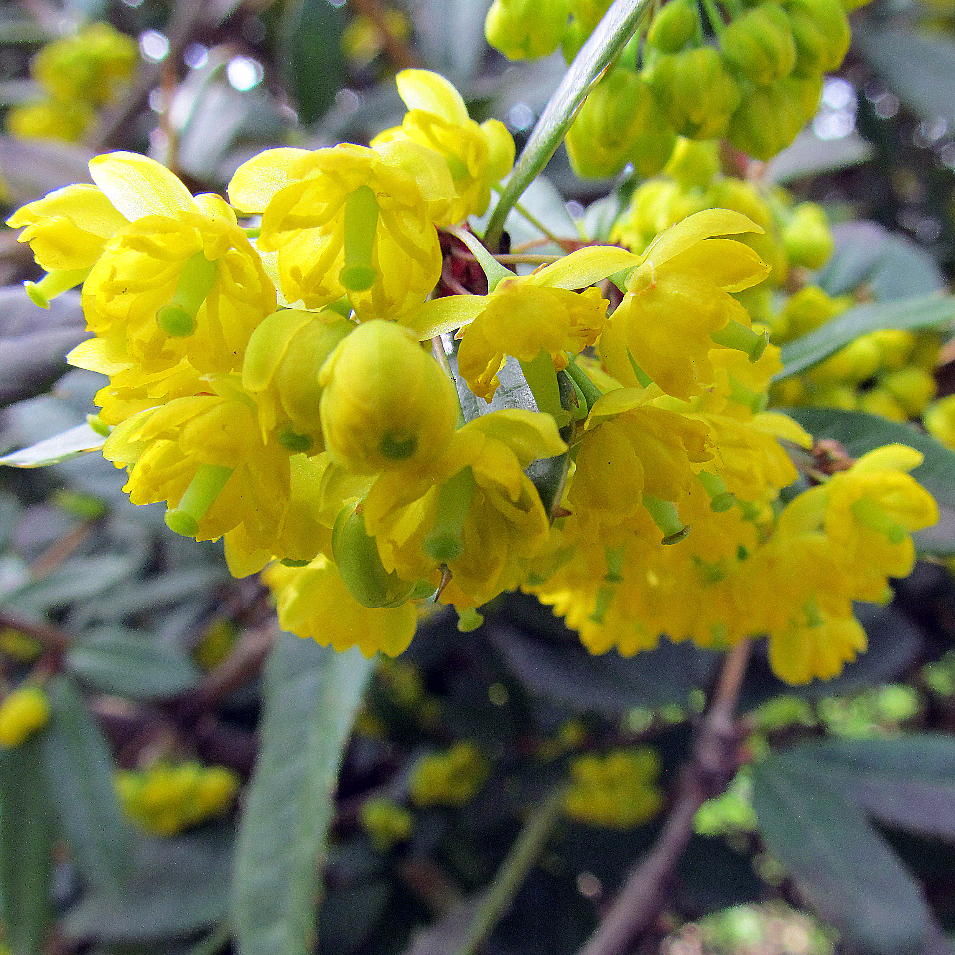 Berberis julianae flowers